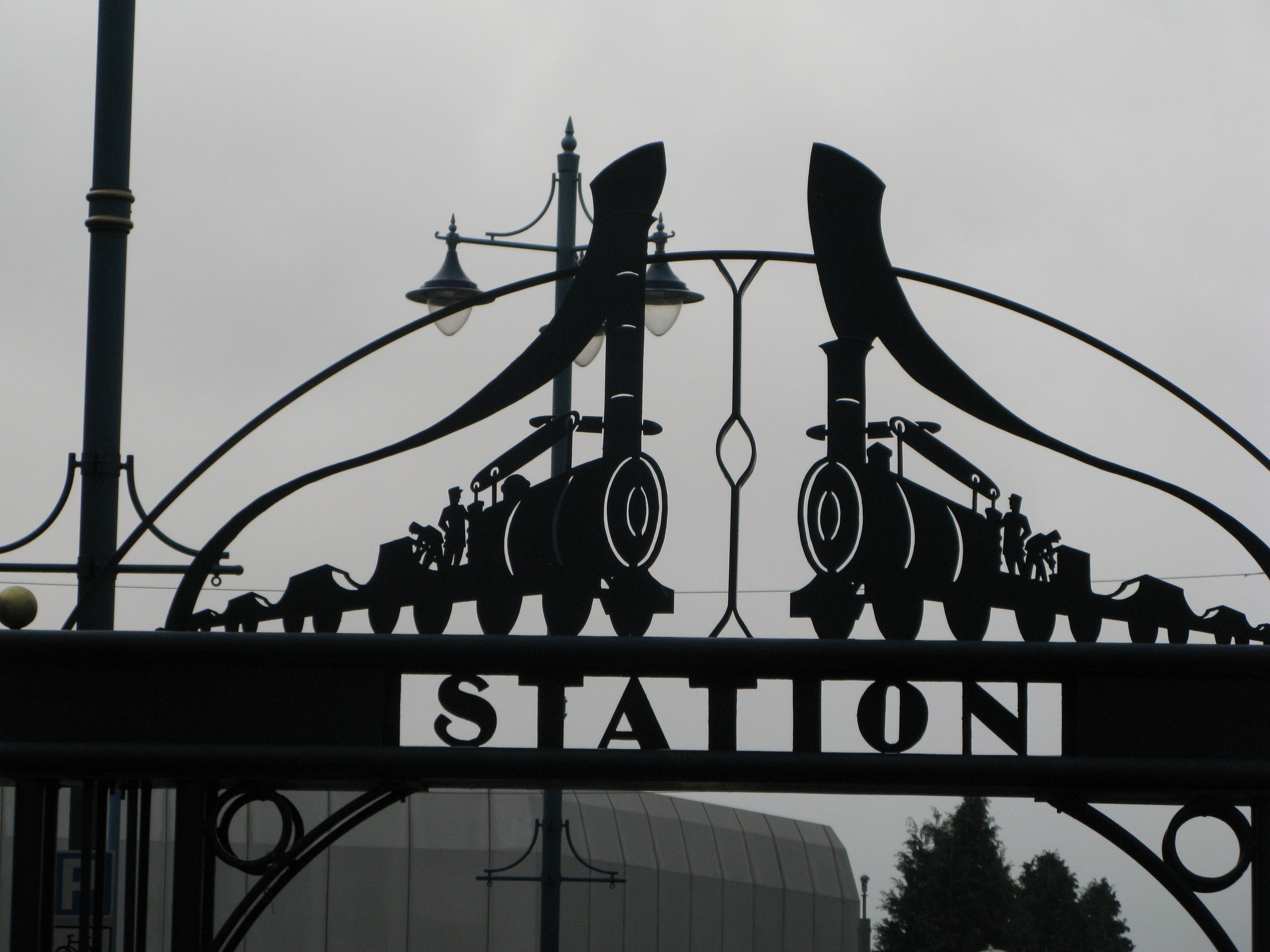 At the entrance to the subway on Foster Street